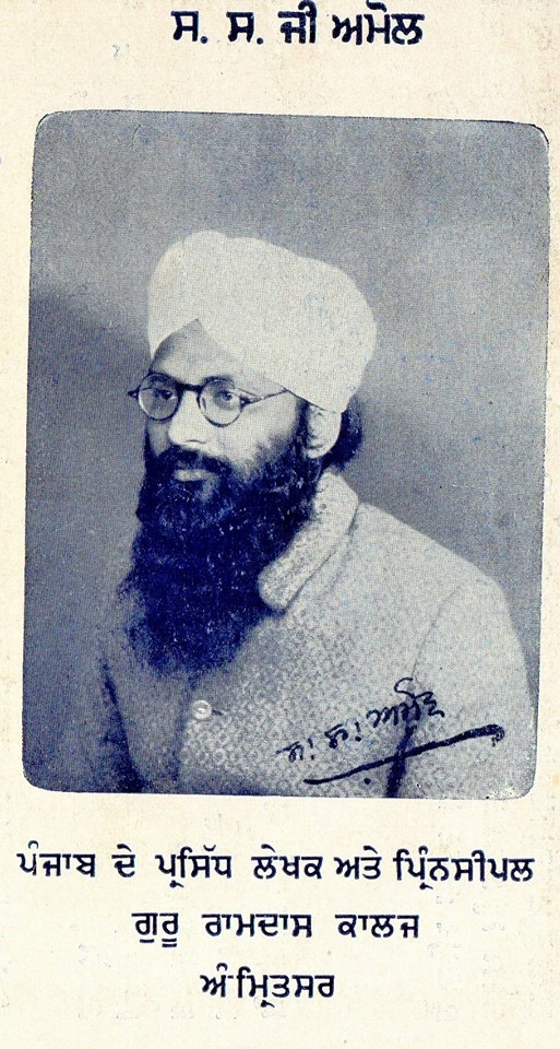 Photo of famous Punjabi literary person